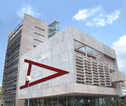 The City Hall of Mollet del Vallès (Catalonia, Spain). A ajaguda amb peix (Lying A with a fish) of Joan Brossa.